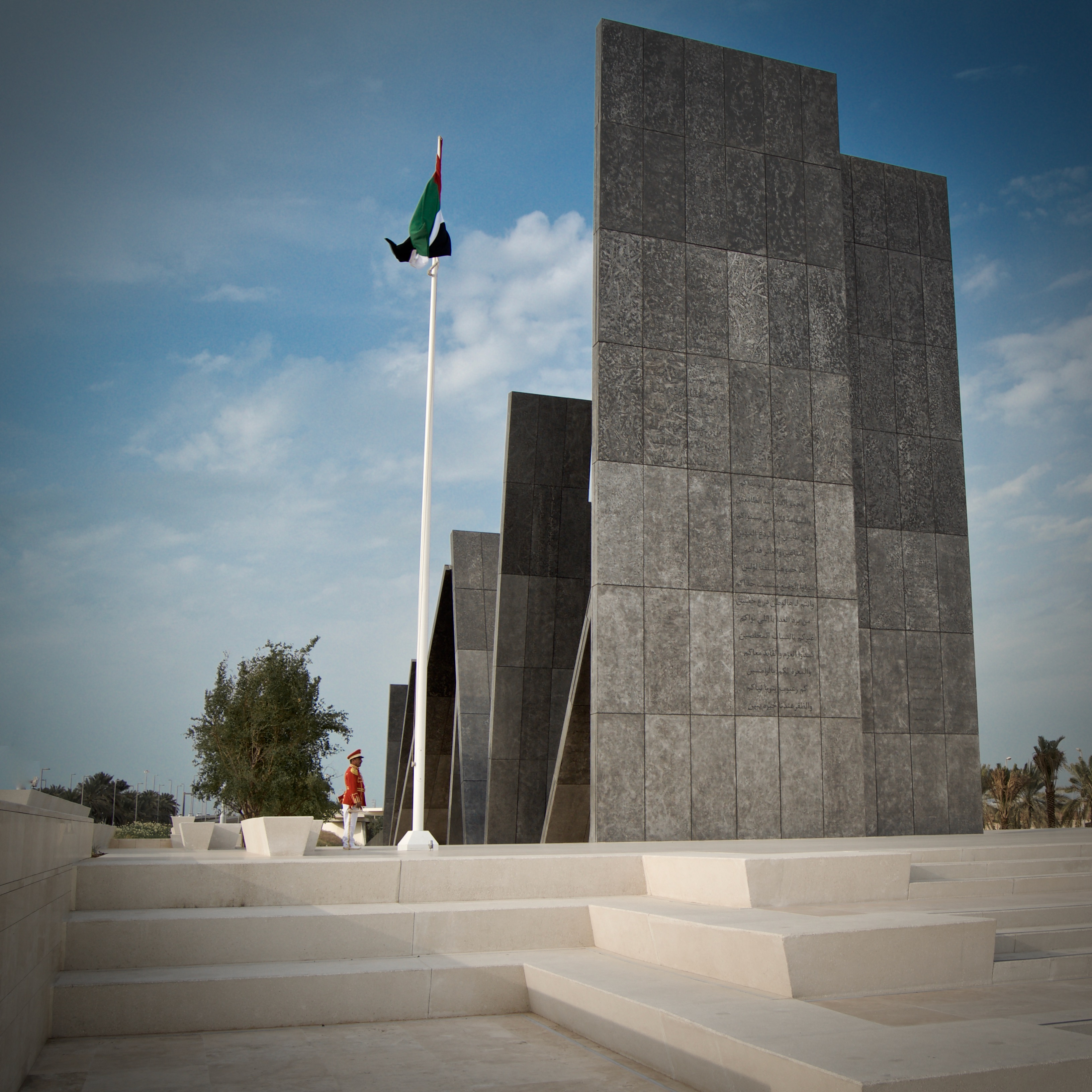 Flag Salute at What Al Karama